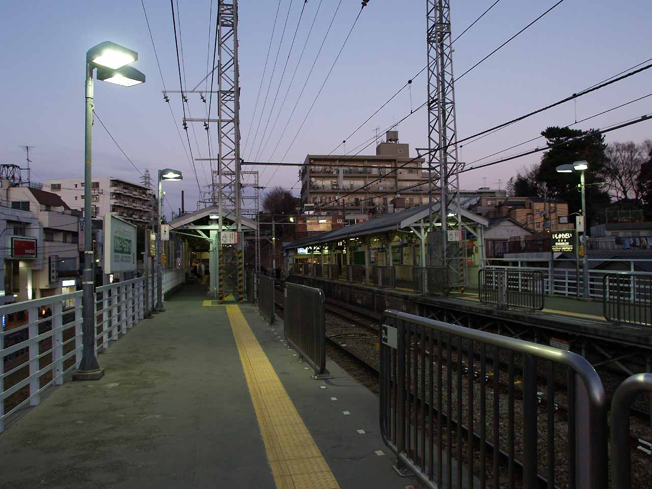 Tokyu Ikegami Line Ishikawadai station from west: Kamata side.